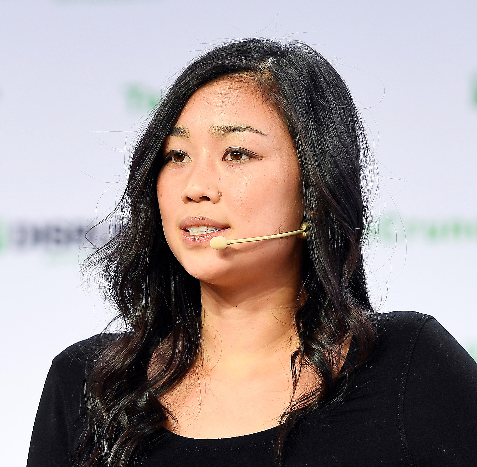 SAN FRANCISCO, CALIFORNIA - OCTOBER 04: Block Party Founder & CEO Tracy Chou speaks onstage during TechCrunch Disrupt San Francisco 2019 at Moscone Convention Center on October 04, 2019 in San Francisco, California. (Photo by Steve Jennings/Getty Images for TechCrunch)